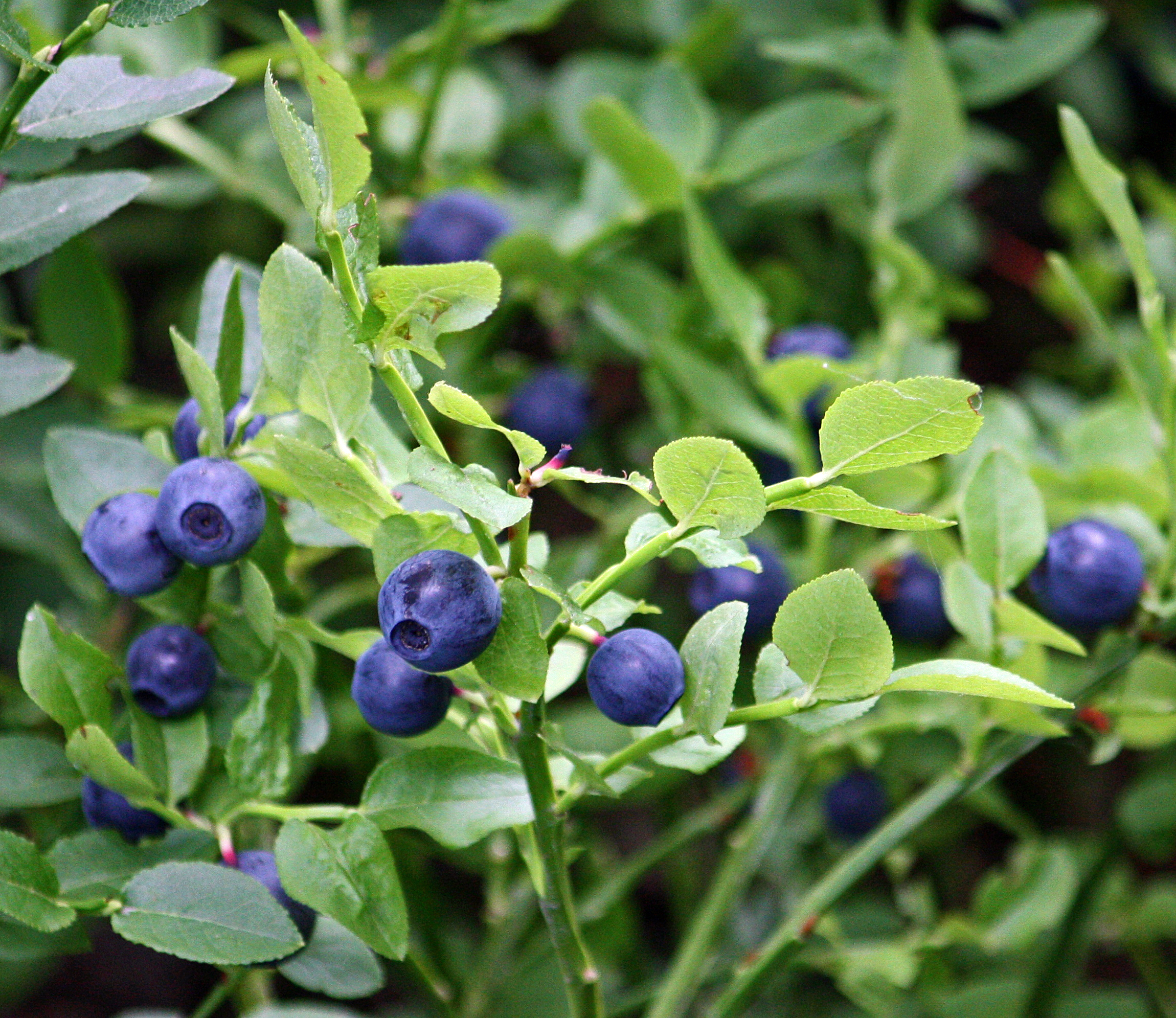 Bilberries (Vaccinium myrtillus) in Kerava, Finland.